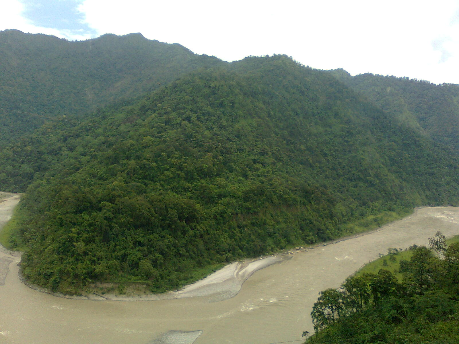 Life Line of Gangtok